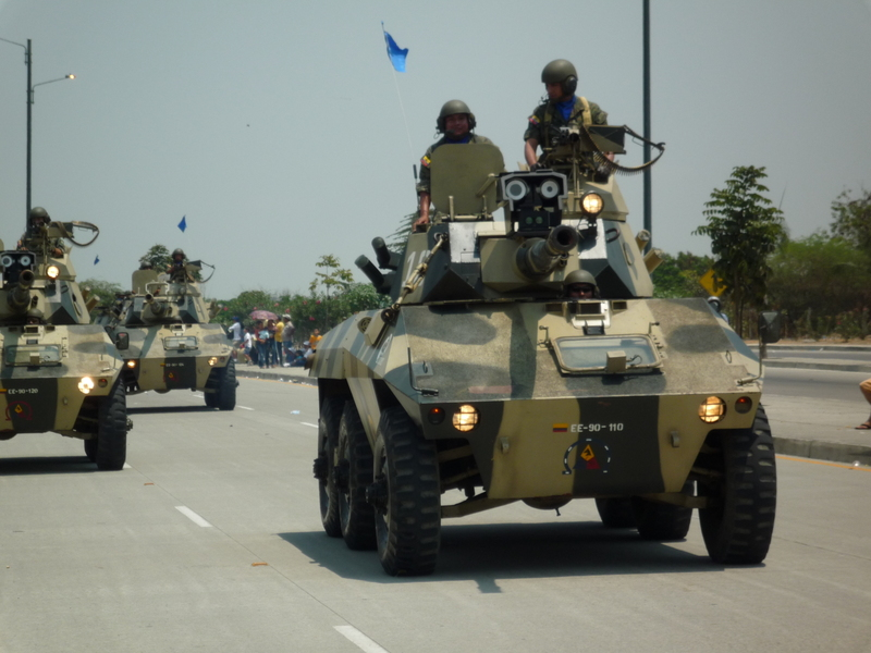 Cascavel armored vehicle in Ecuador